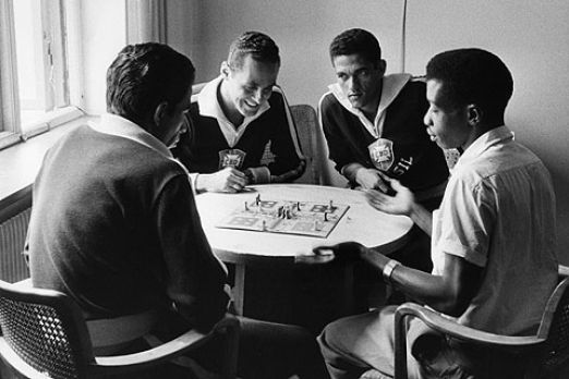 Hindås 3 June 1958. The Brazilian World Cup players Vava, Gilmar, Garrincha and Moseir playing the board game Ludo at their training grounds in Hindås.